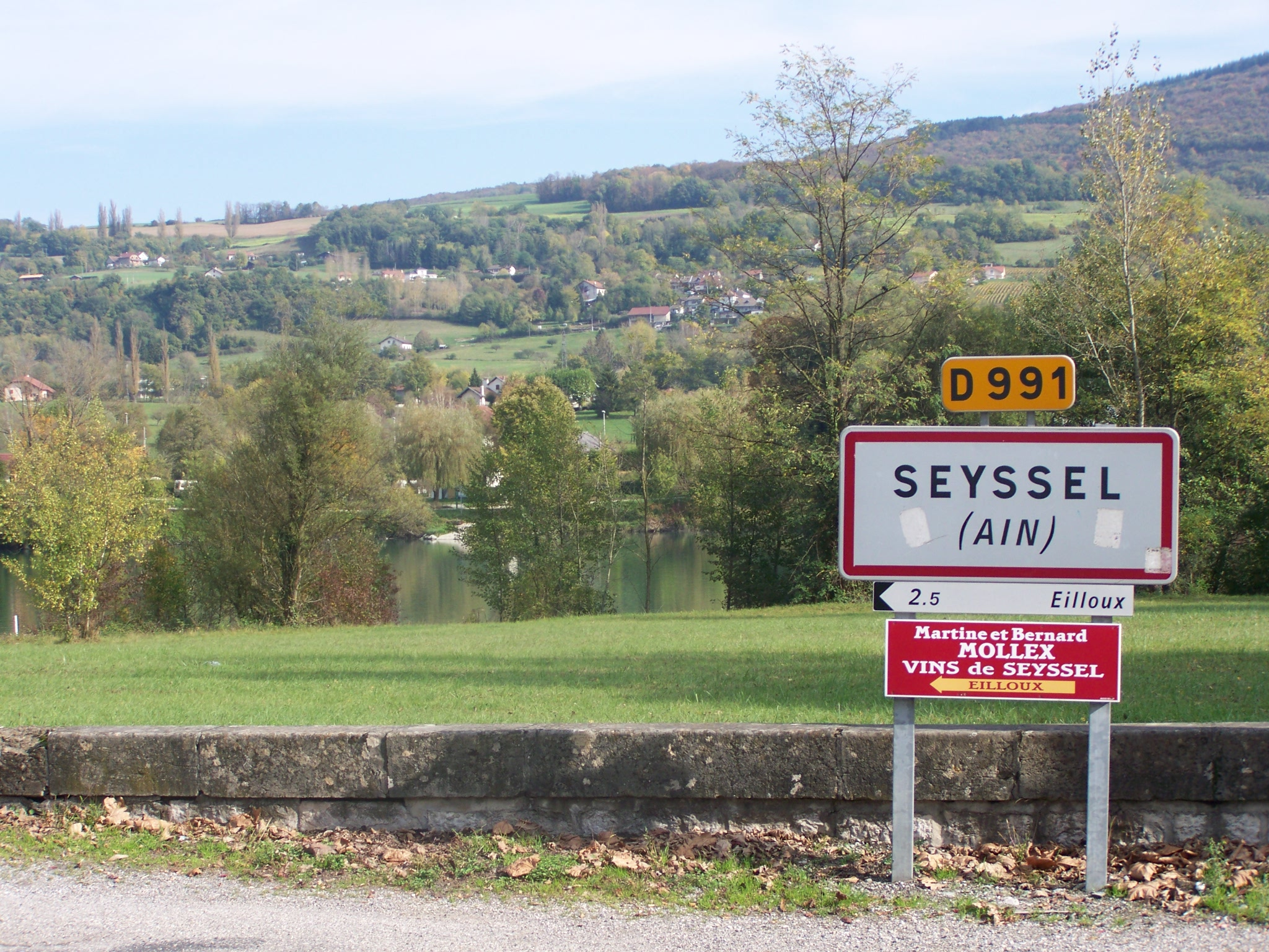 Sign welcoming visitors to the part Ain of the French little commune of Seyssel, situated also in the departments of Ain and Haute-Savoie.